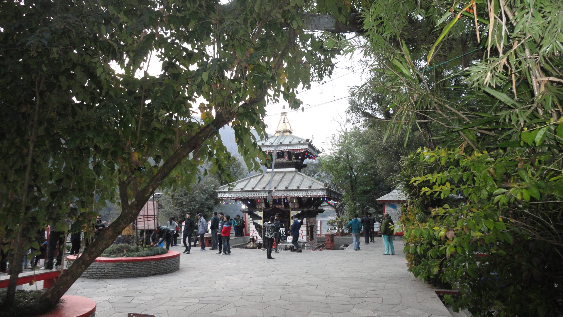 Tal Barahi Temple lying in the center of Phewa lake,Pokhara